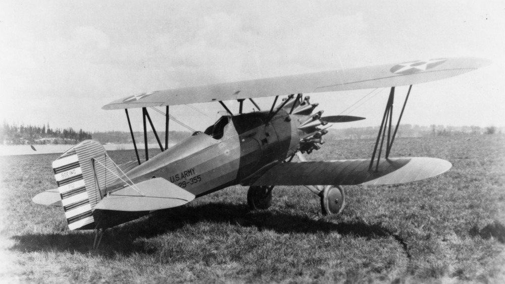 PictionID:41897737 - Title:Ray Wagner Collection Image - Catalog:16_000762 Boeing P-12 29-355 - Filename:16_000762 Boeing P-12 29-355.tif - - Ray Wagner was Archivist at the San Diego Air and Space Museum for several years and is an author of several books on aviation --- ---Please Tag these images so that the information can be permanently stored with the digital file.---Repository: San Diego Air and Space Museum